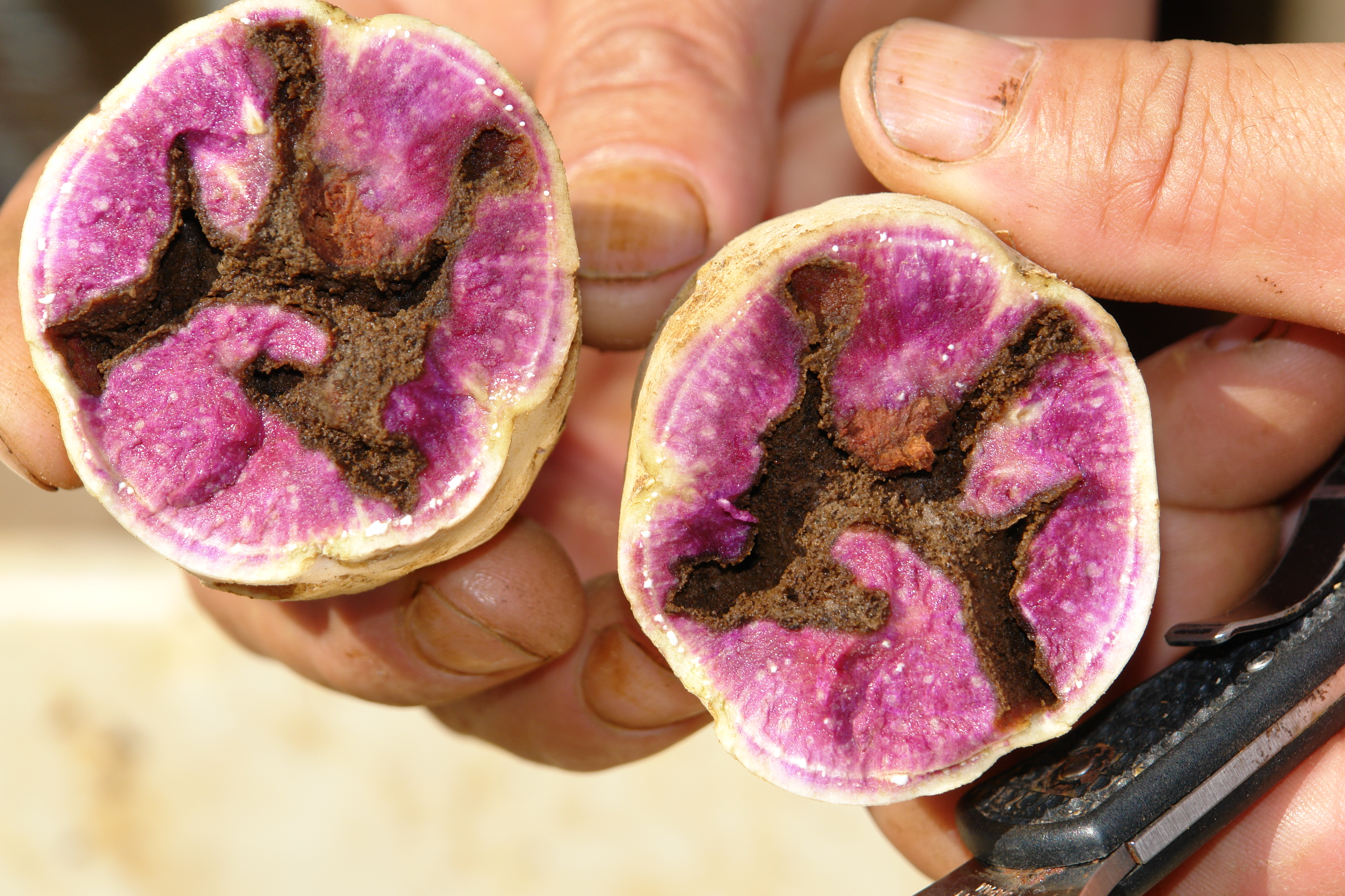 Sweetpotato weevils (Cylas formicarius) tunnels.